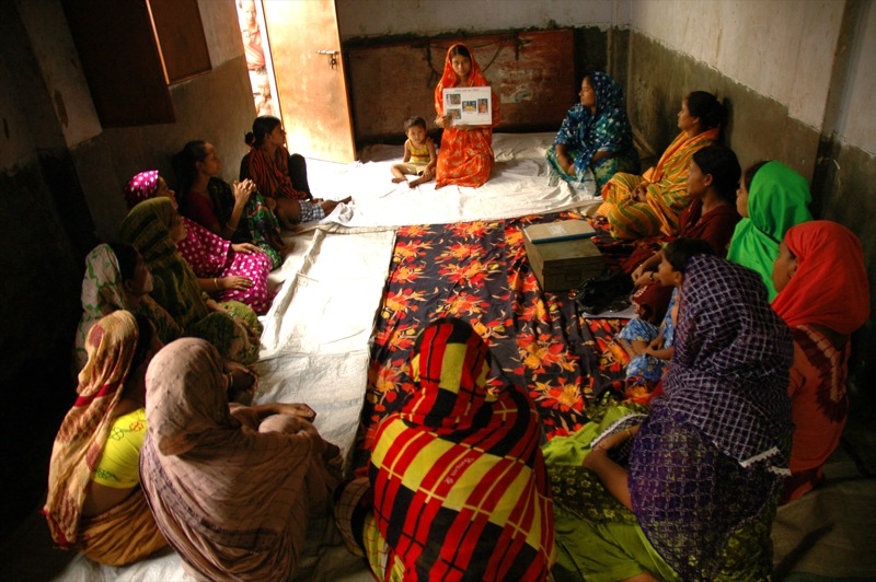 Women sitting on mats on the floor listen to a lecture on pre-natal care.